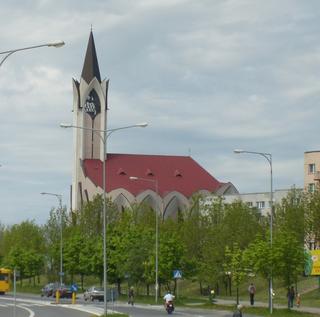 St. Queen Jadwiga's church (Roman-catholic) in Kielce